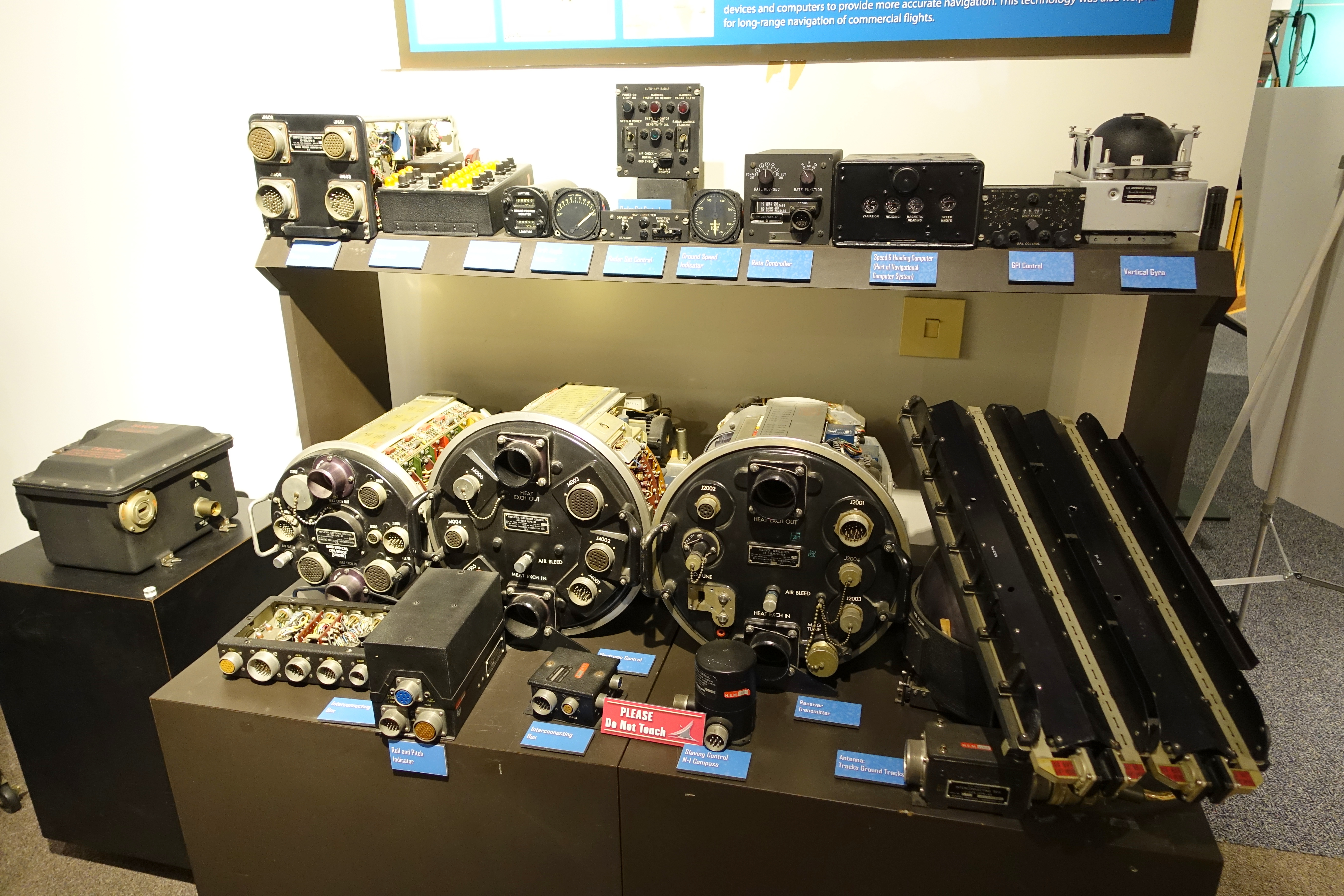 Exhibit in the National Electronics Museum, 1745 West Nursery Road, Linthicum, Maryland, USA. All items in this museum are unclassified. The museum permitted photography without restriction.